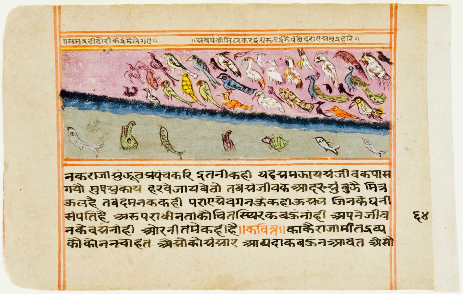 Source: Philadelphia Museum of Art A fable in Pancatantra Artist/maker unknown, Rajasthan, India, 18th century Medium: Opaque watercolor on paper Classification: Manuscripts Curatorial Department: South Asian Art Credit Line: Stella Kramrisch Collection, 1994 PMA Object Number: 1994-148-459